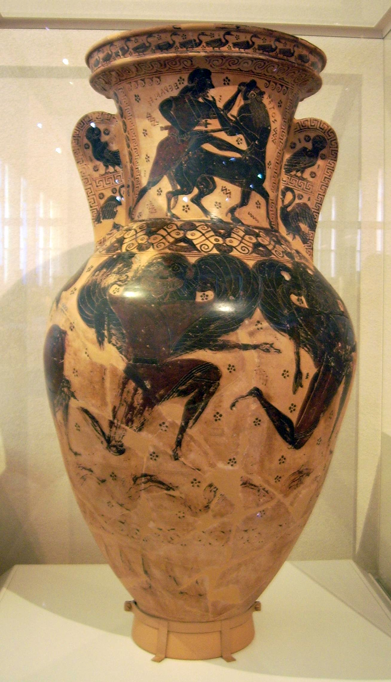 Attic black-figure eponymous (amphora) vase of the Nessos Painter; Perseus already departed while the beheaded Medusa collapses on the ground, her Sisters Sthele and Euryale fly above the sea in pursuit of Perseus. For head image see detail image; found at a tomb in Pireaos Str. in Athens; about 620/610 BC.